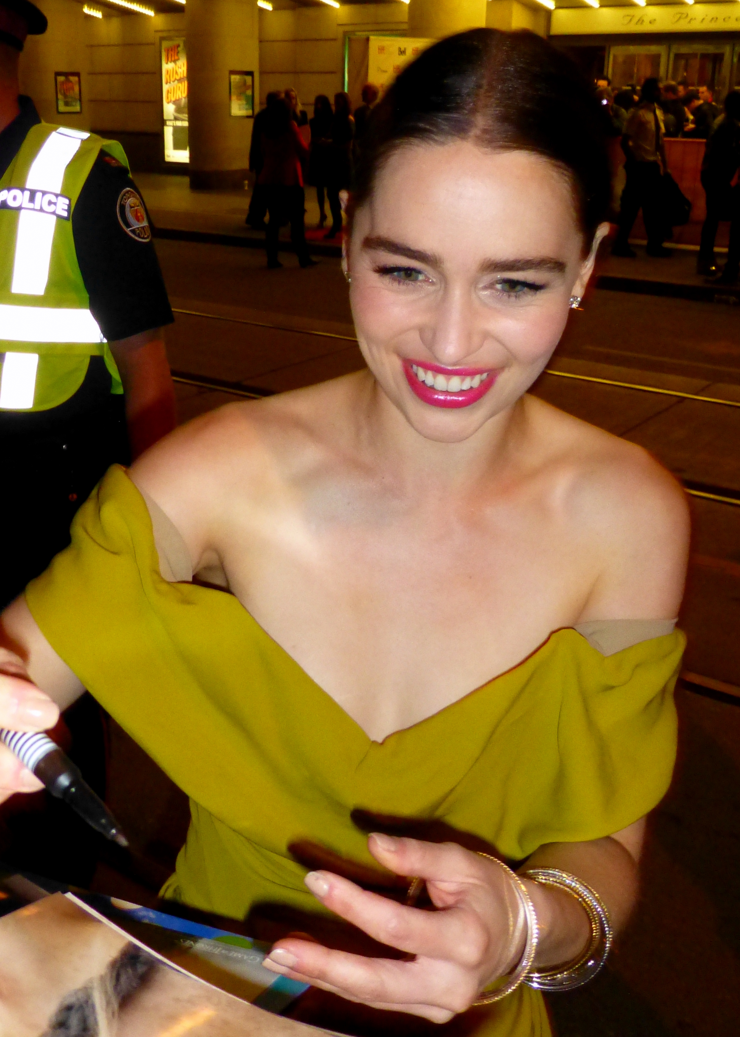 Emilia Clarke at the premiere of Dom Hemingway, Toronto Film Festival 2013